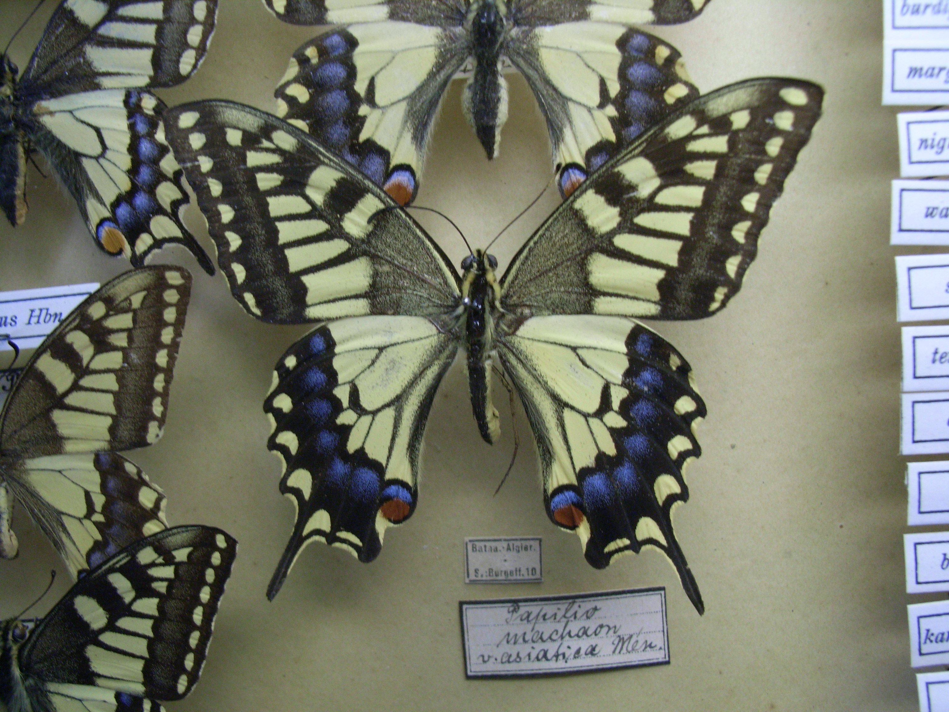 Papilio machaon asiatica Papilionidae Ex Coll. Museum Wiesenbad